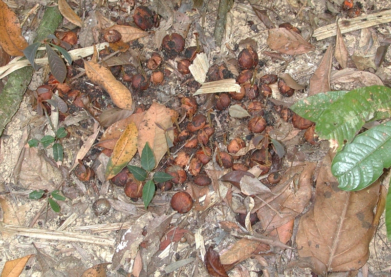 Casuarius casuarius scat